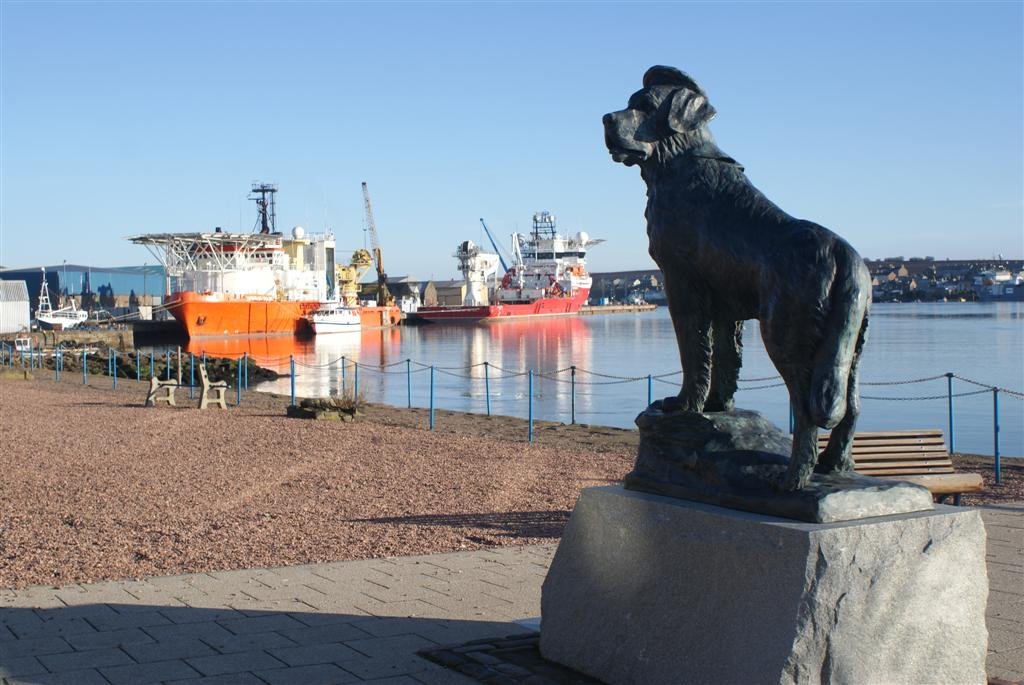 Bamse The Bamse statue sitting proudly on the quayside by Montrose harbour